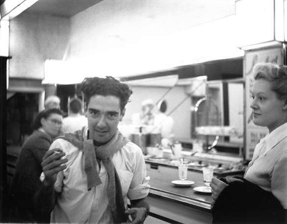 Max Harris and Joy Hester at Tarax Bar, Flinders Street Station, Melbourne, Australia